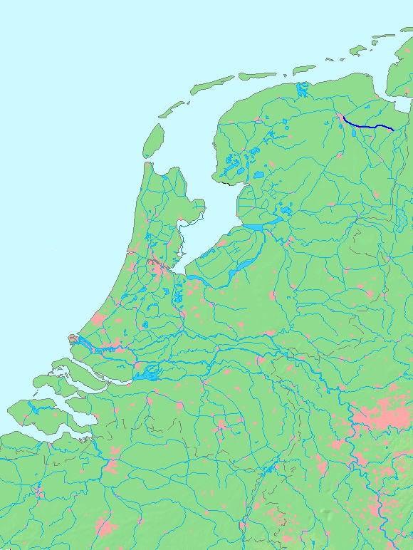 Winschoterdiep Location of a waterway (river/canal) in the Netherlends